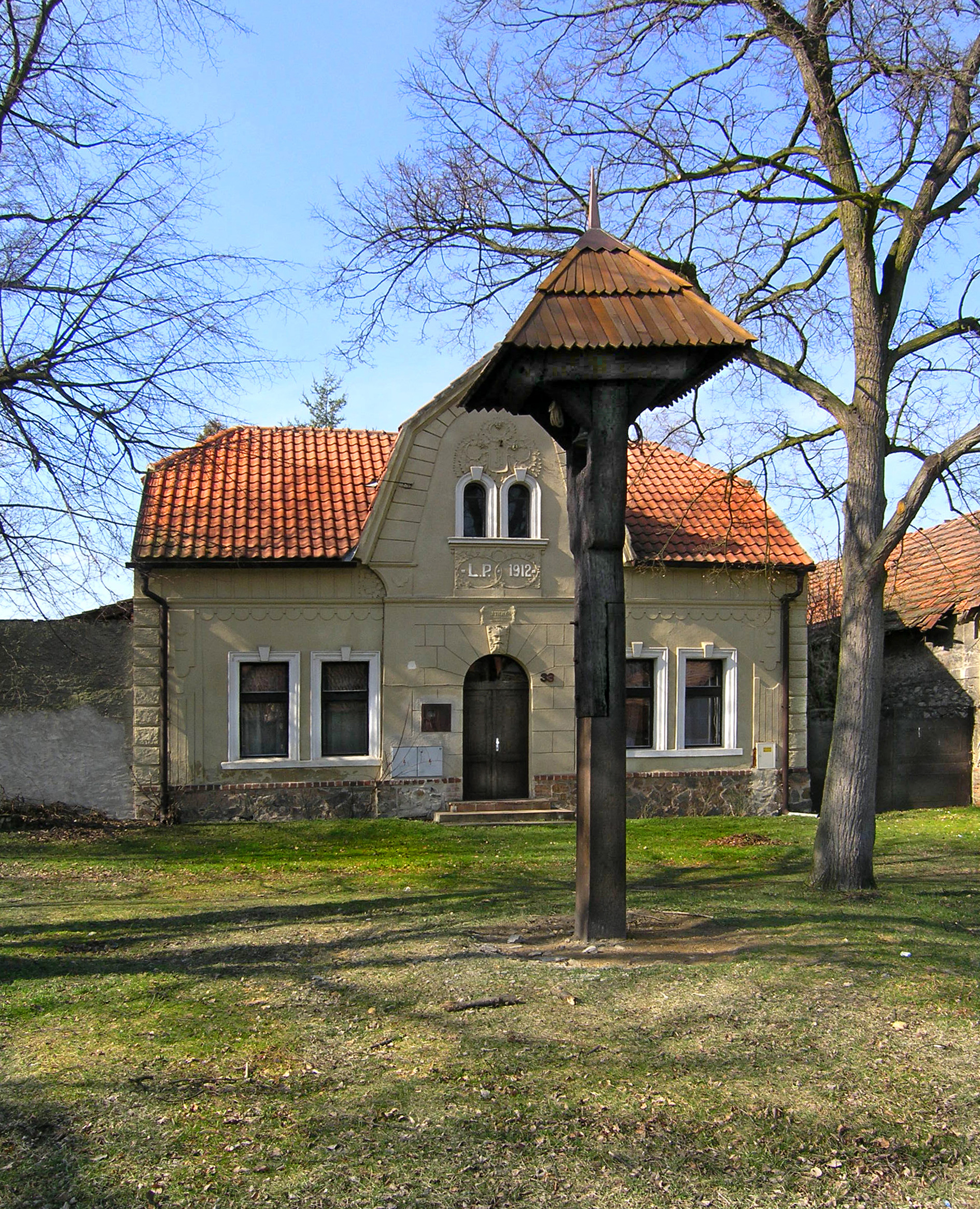 Little bell tower at Hájek near Uhříněves, Prague